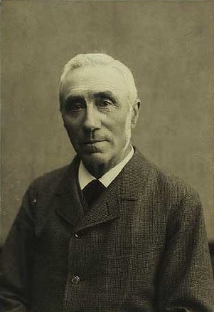 Danish estate owner, farmer Heinrich Nicolai Valentiner (1843-1921)